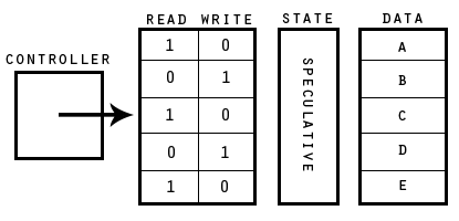 Hardware transactional memory implementation using read write bits and speculative state.